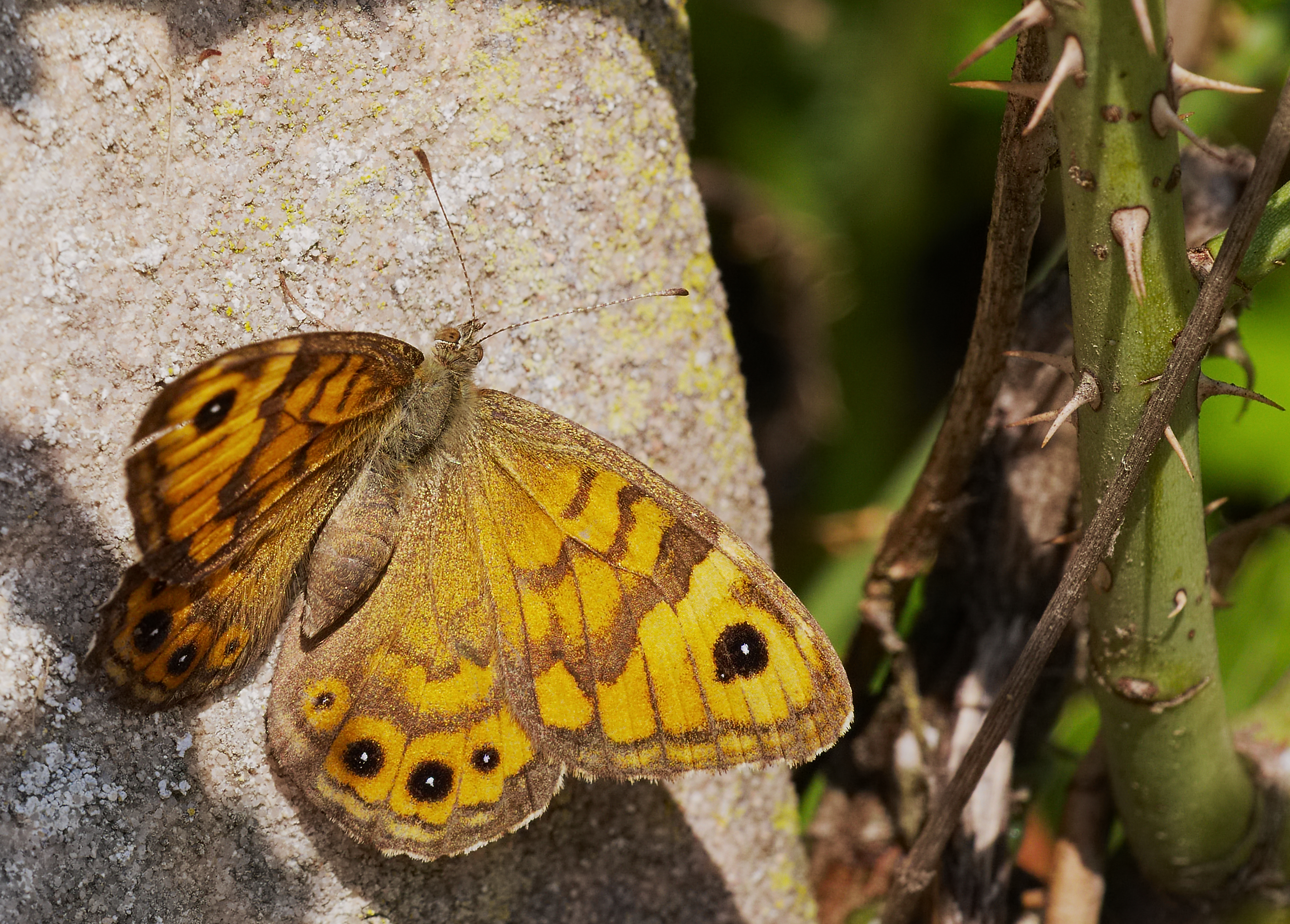 Wall brown - Lasiommata megera, female. Taken in the Felsenberg-Berntal in Leistadt, Rhineland-Palatinate, Germany.